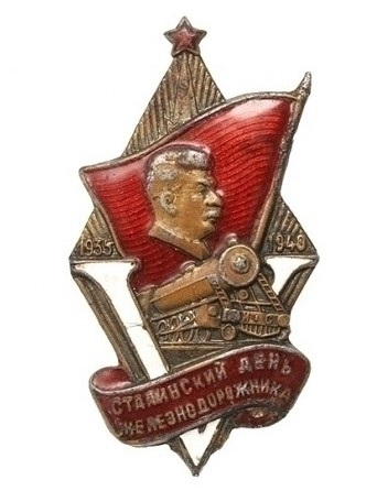 Commemorative railway badge, Soviet Union, 1940